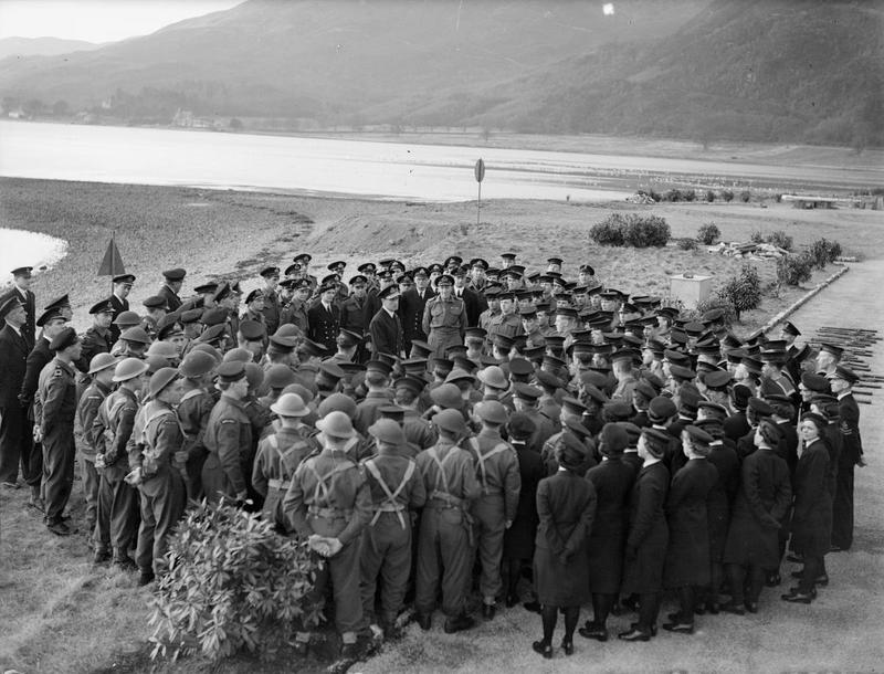 Chief of Combined Operations on Visit of Inspection. 6 March 1943, at HMS Armadilla and HMS Pascoe, Lord Louis Mountbatten Chief of Combined Operations Inspect Units of His Command. Vice Admiral Lord Louis Mountbatten talking to his troops at HMS ARMADILLA.